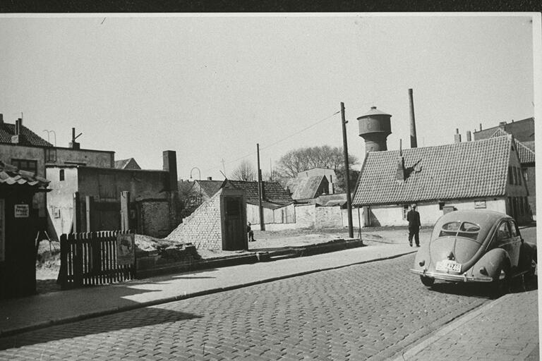 Description: Destroyed Elmshorn Synagogue; back side of synagogue Creator/Photographer: Unknown Medium: Black and white photographic print Date: November 1938 Repository:Leo Baeck Institute Parent Collection: Paula Baum Collection Call Number: AR 1314 Rights Information: No known copyright restrictions; may be subject to third party rights. For more copyright information, click here. Find more information about this image and others at CJH Archives and Library Catalog.